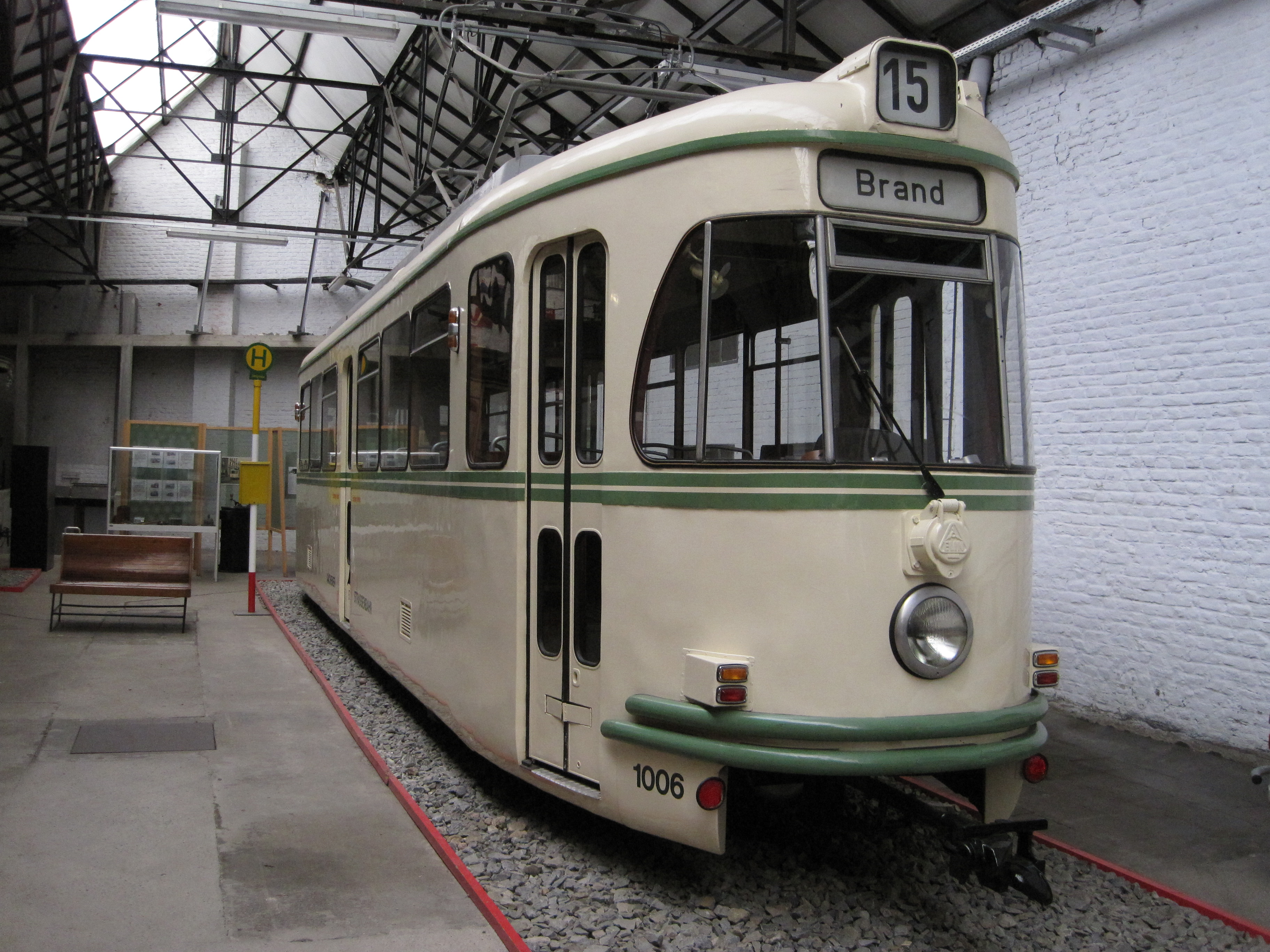 Tramcar 1006 from ASEAG, Aachen, DE